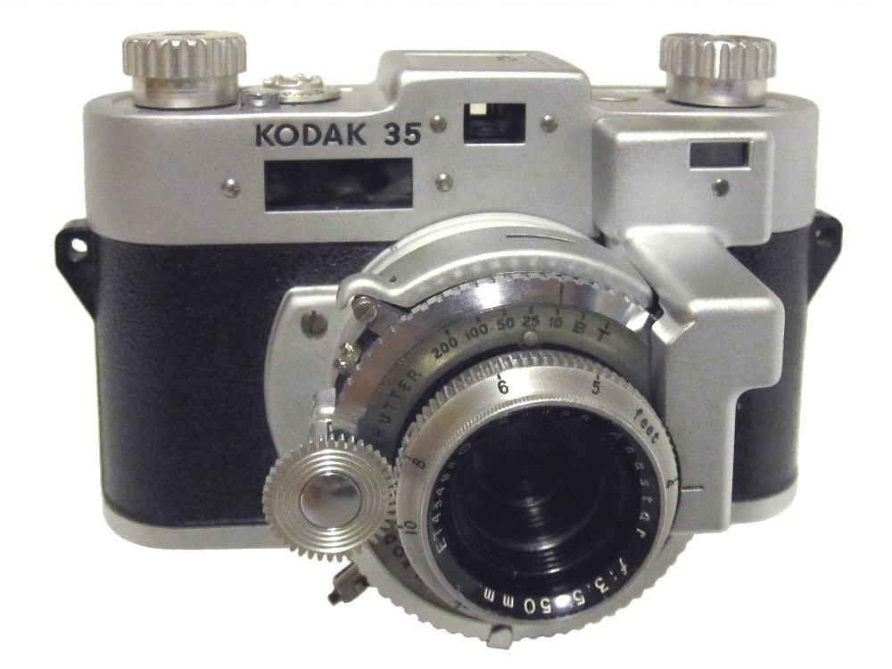 Front image of Kodak 35 RF camera